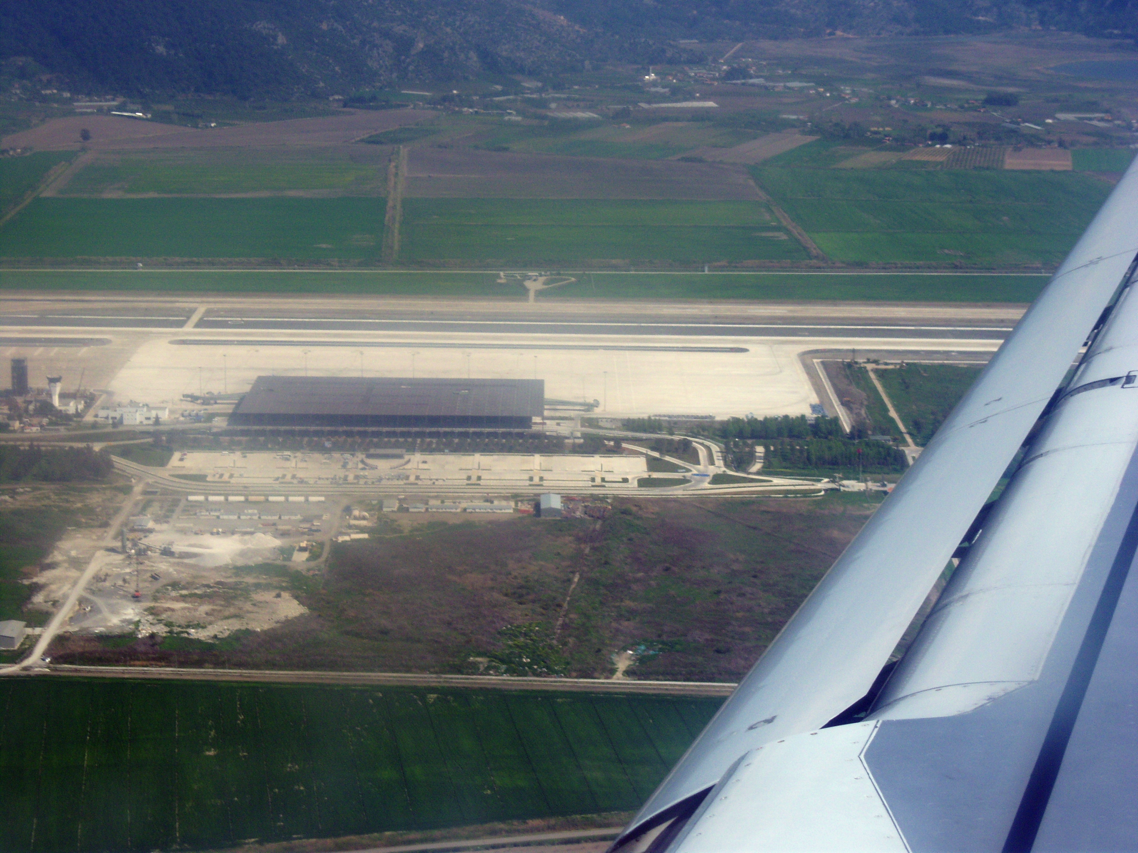 An overhead view of Dalaman Airport just before landing there. Viewed from a Thomas Cook Airlines Airbus A320 from London Stansted.